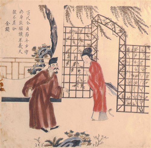 An outline block and four color blocks have been used to make this print, which depicts two characters from the fourteenth-century play Injustice to Dou E, namely the widowed heroine Dou E (right figure) as she is approached by the evil Donkey Zhang who seeks her hand in marriage.